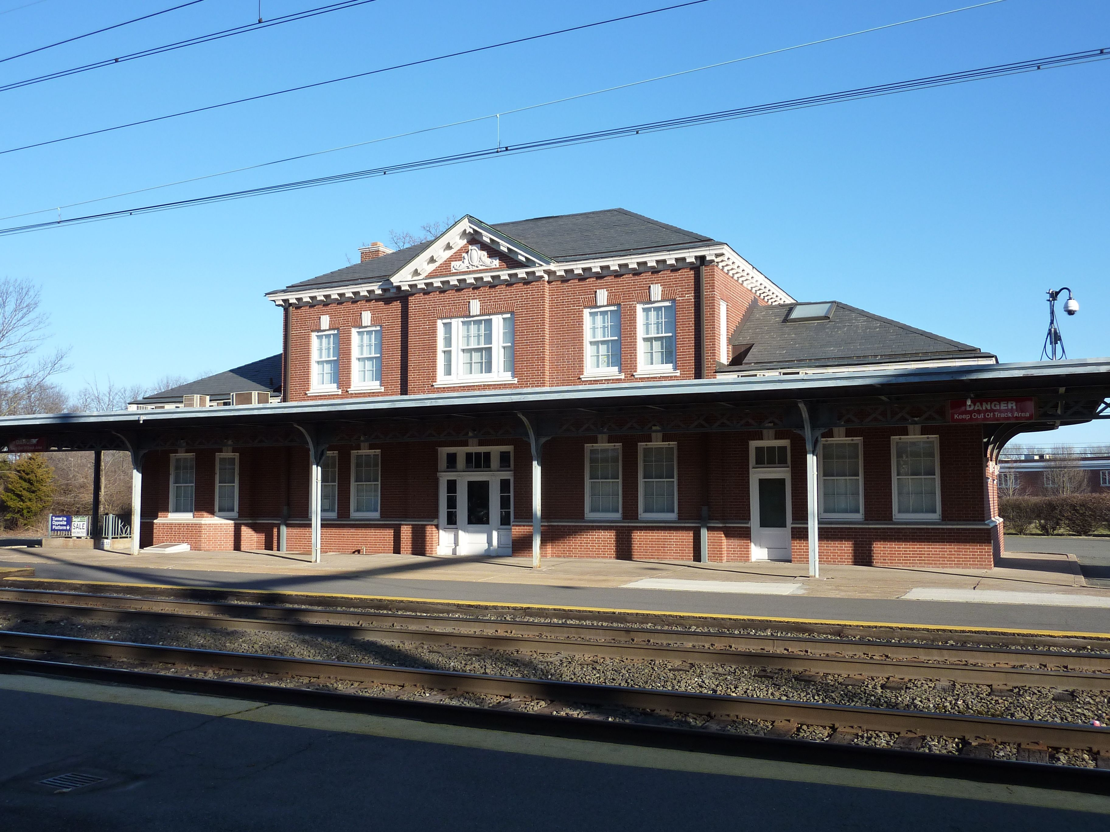 Brick railroad station- originally Reading Lines, West Trenton, NJ Now privately owned offices.